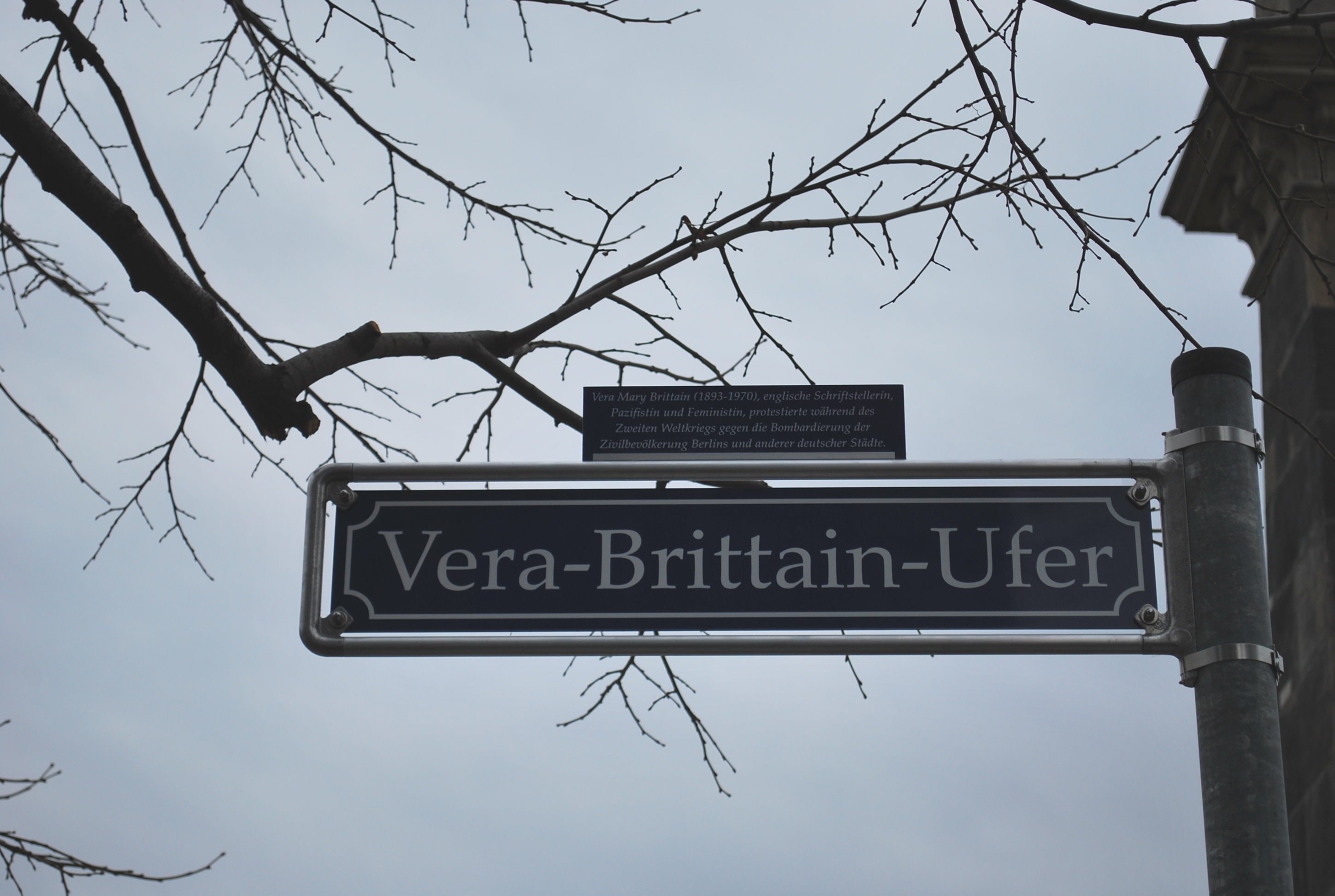 Vera-Brittain-Ufer in Berlin